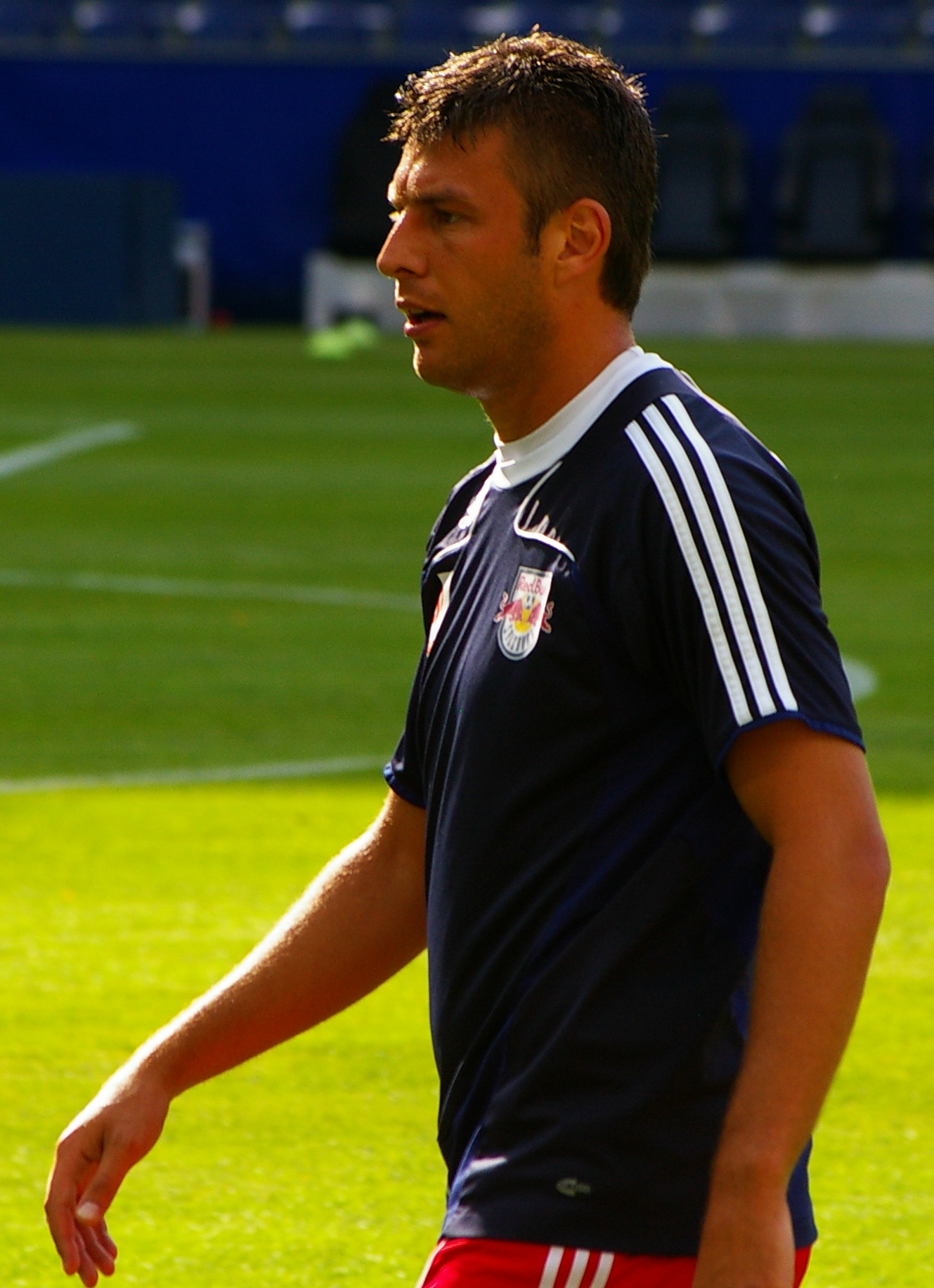 Milan Dudic defender FC Red Bull Salzburg